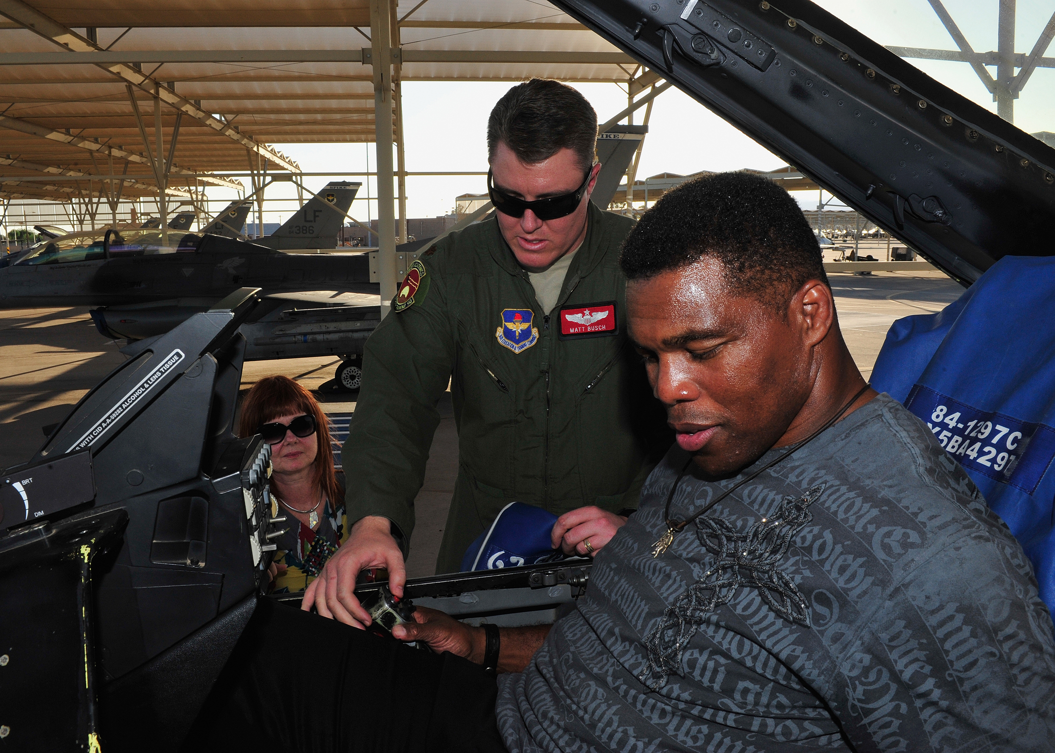 Herschel Walker sits in an F-16 Fighting Falcon while Maj. Matt Busch, 56th Training Squadron assistant director of operations, explains the controls of the aircraft Sept. 21 at Luke Air Force Base. Walker spoke at Luke in partnership with The Freedom Care Program Anti-Stigma Campaign and visited the flightline.